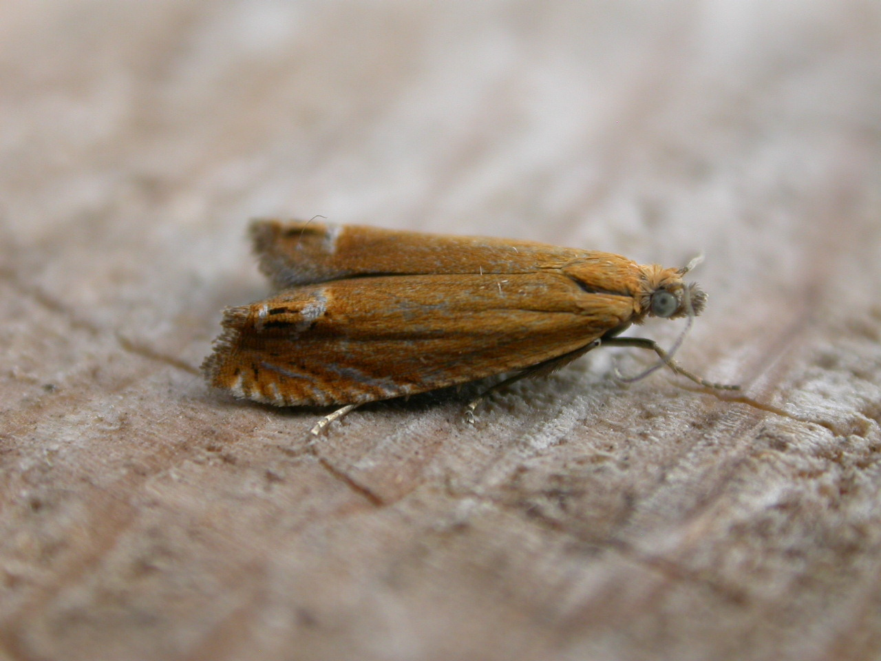 Lathronympha strigana, to MV light, Hellerup, Denmark, 11 August 2003